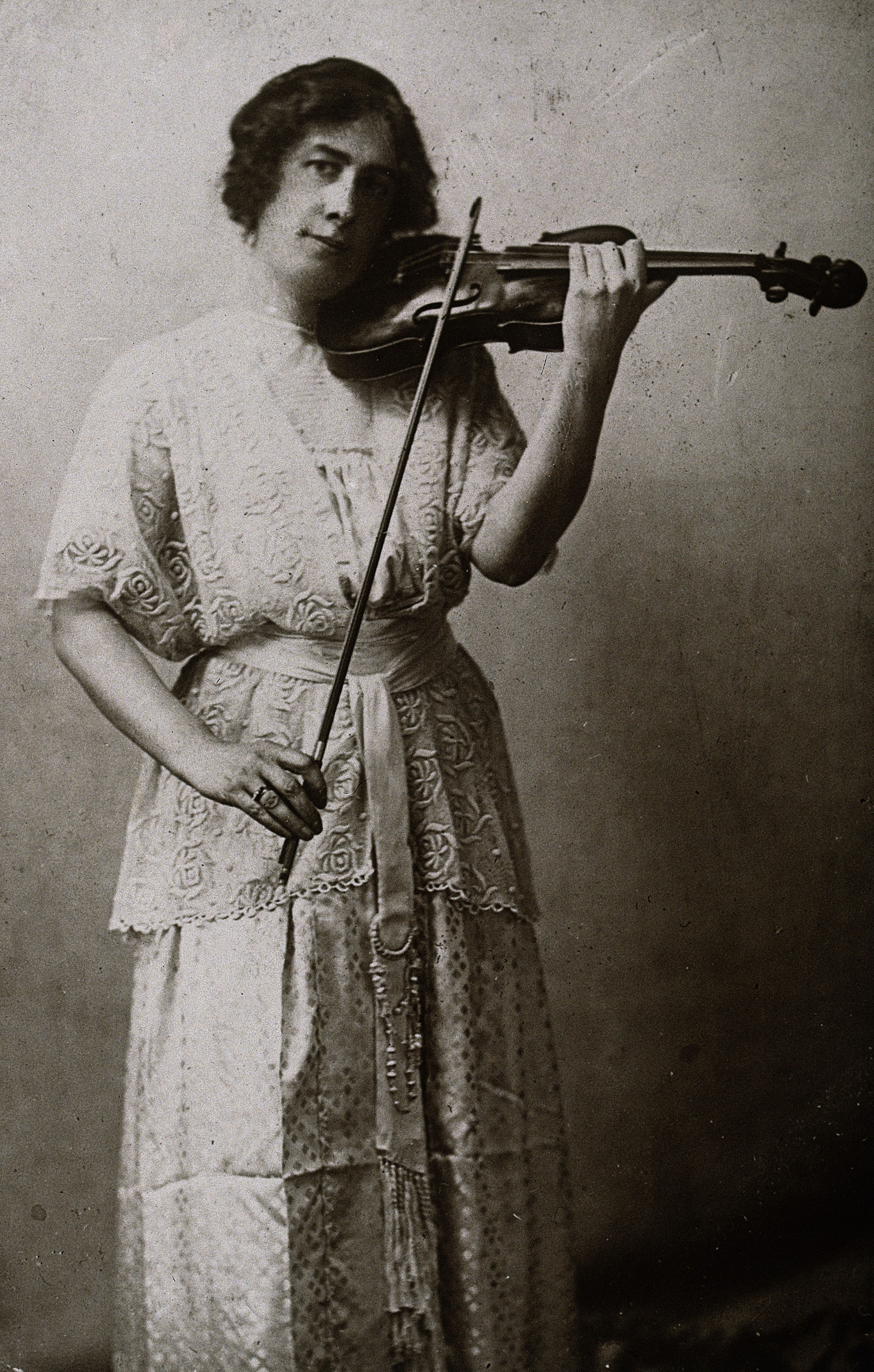 Miss Julia Klumpke, playing the violin. Photograph. Iconographic Collections Keywords: Julia Klumpke